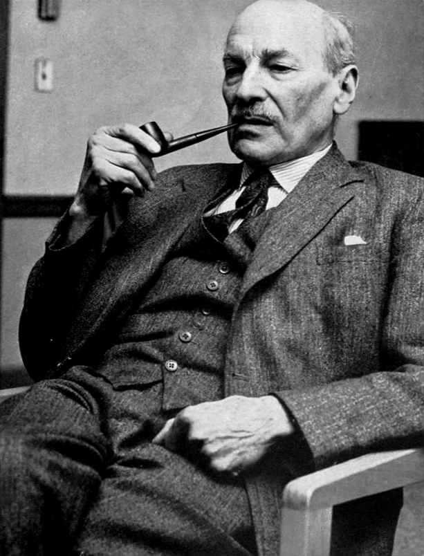 Photograph of former British Prime Minister Clement Attlee during visit to Hill Auditorium at University of Michigan